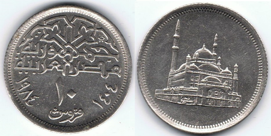 10 Egyptian piasters